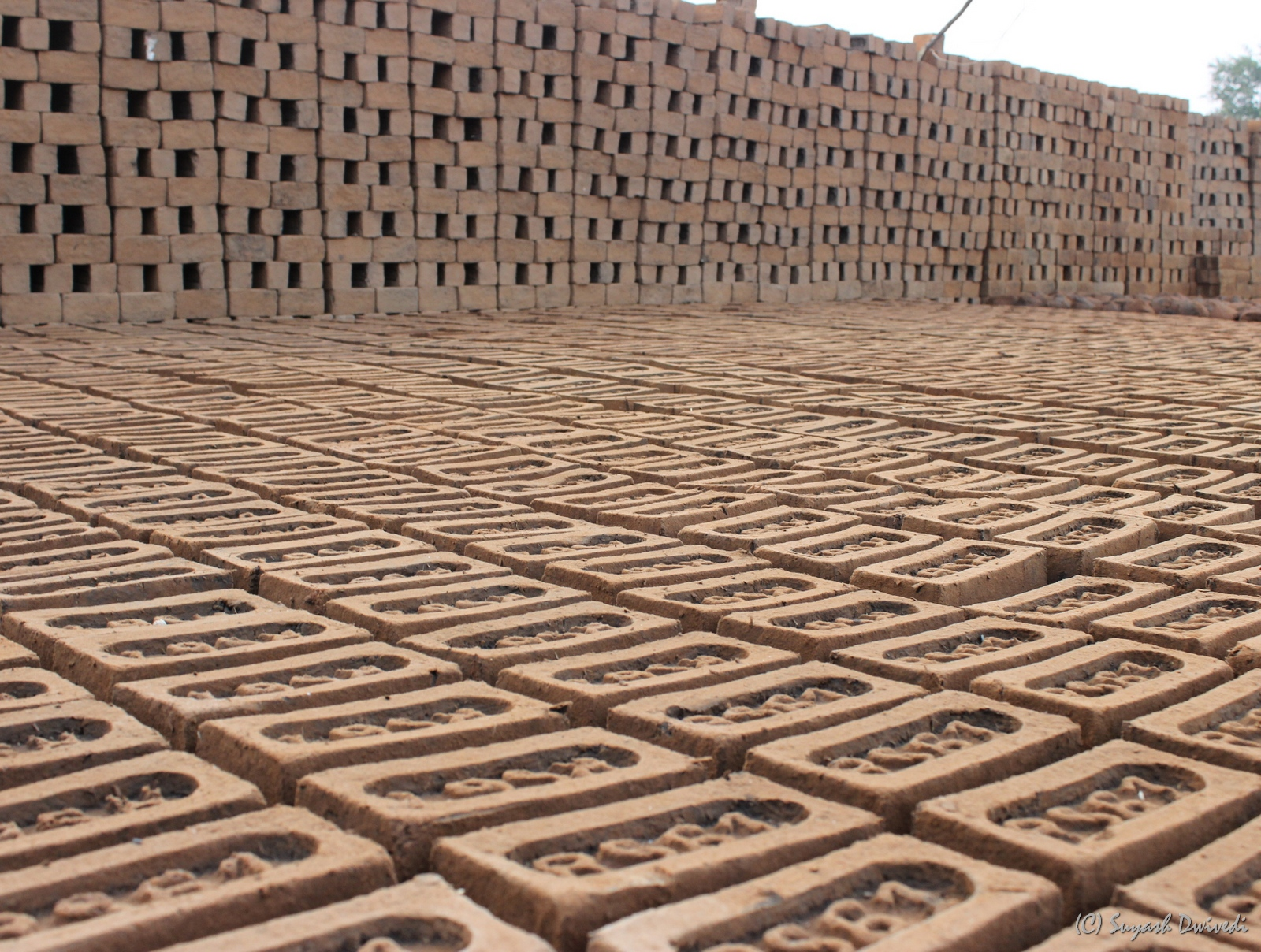 Raw Indian brick